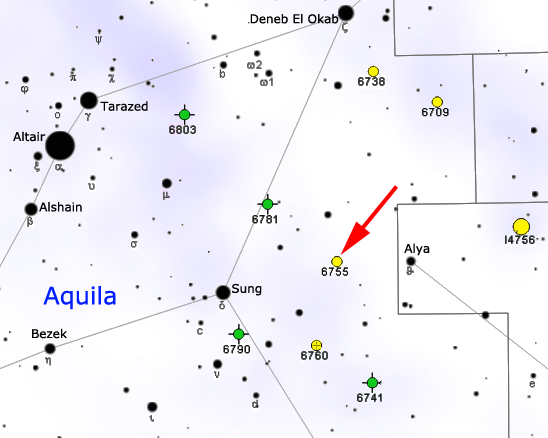 Map of NGC 6755